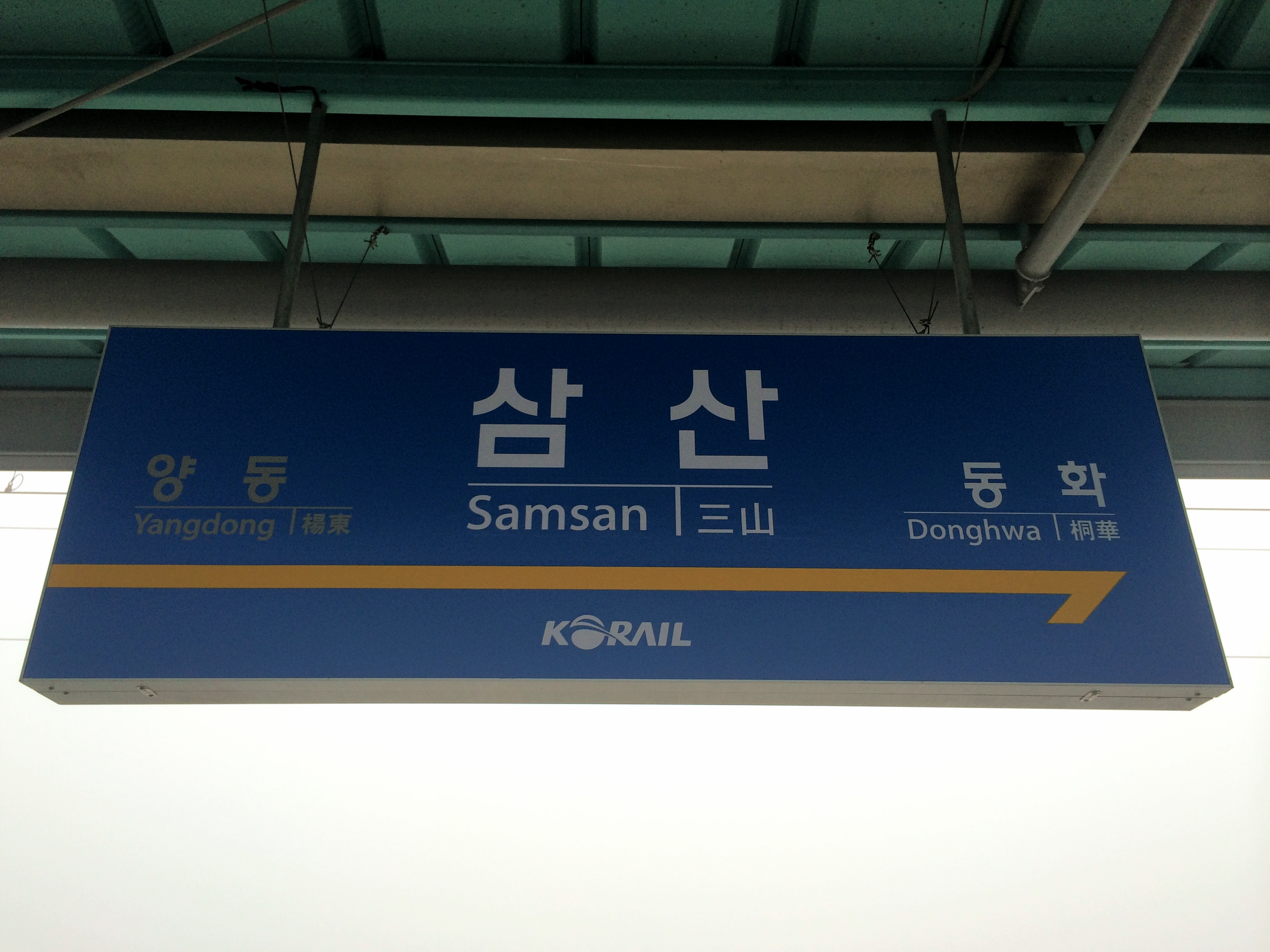 Basic form of running in board of Samsan Station